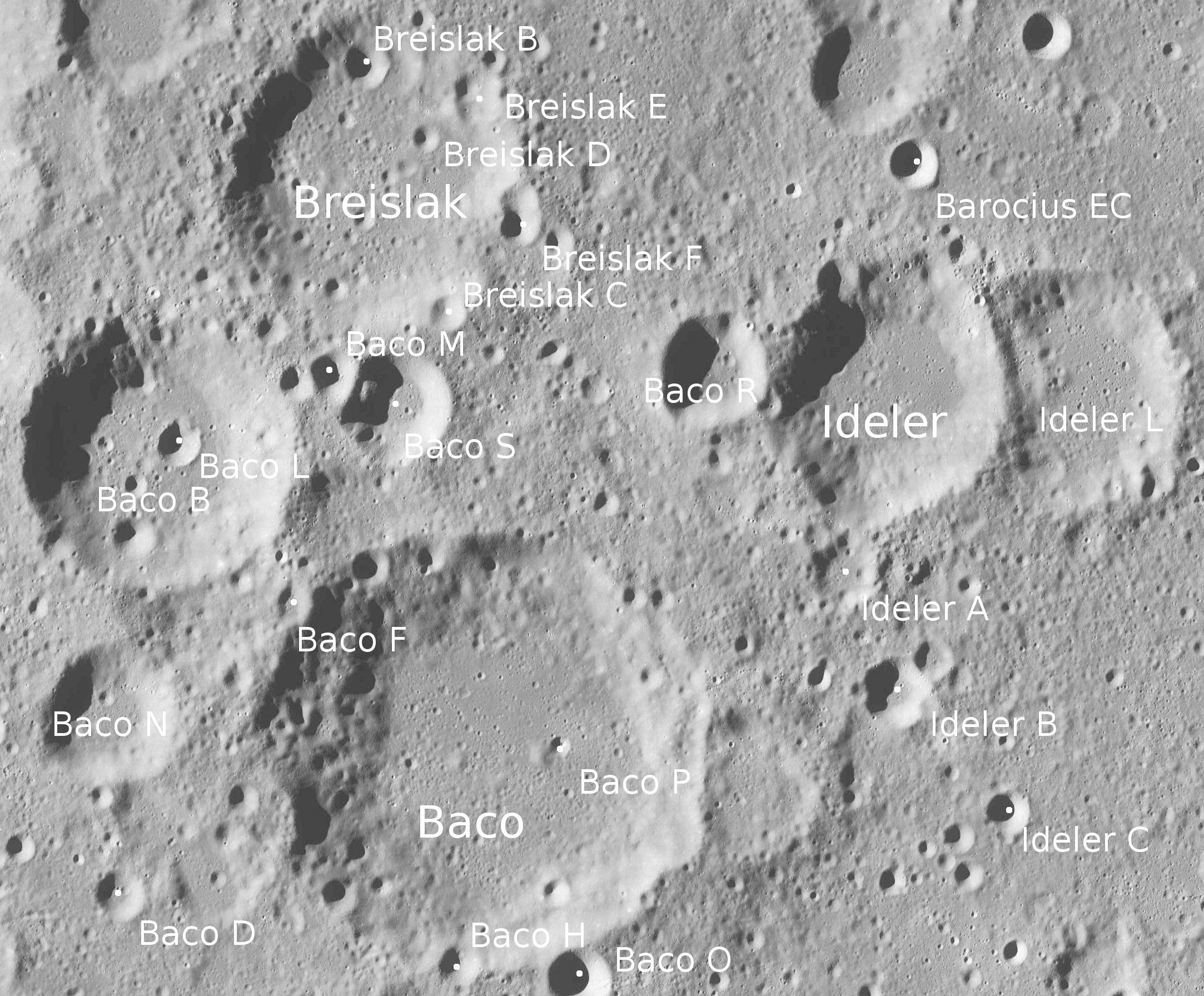 Craters Breislak, Baco and Ideler (detail of LRO - WAC global moon mosaic; Mercator projection)